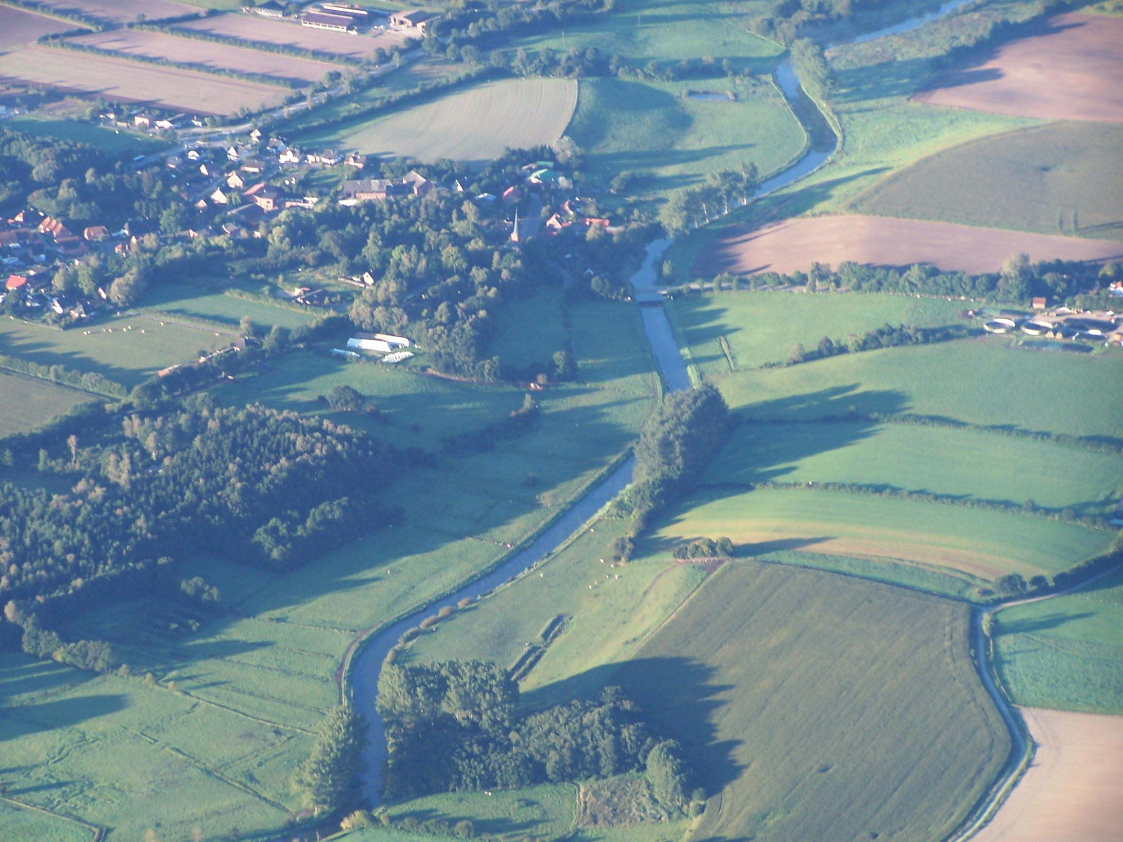 Aerial photo of the Trave river between Wesenberg (right side) and Klein Wesenberg (left side) in northern Germany.